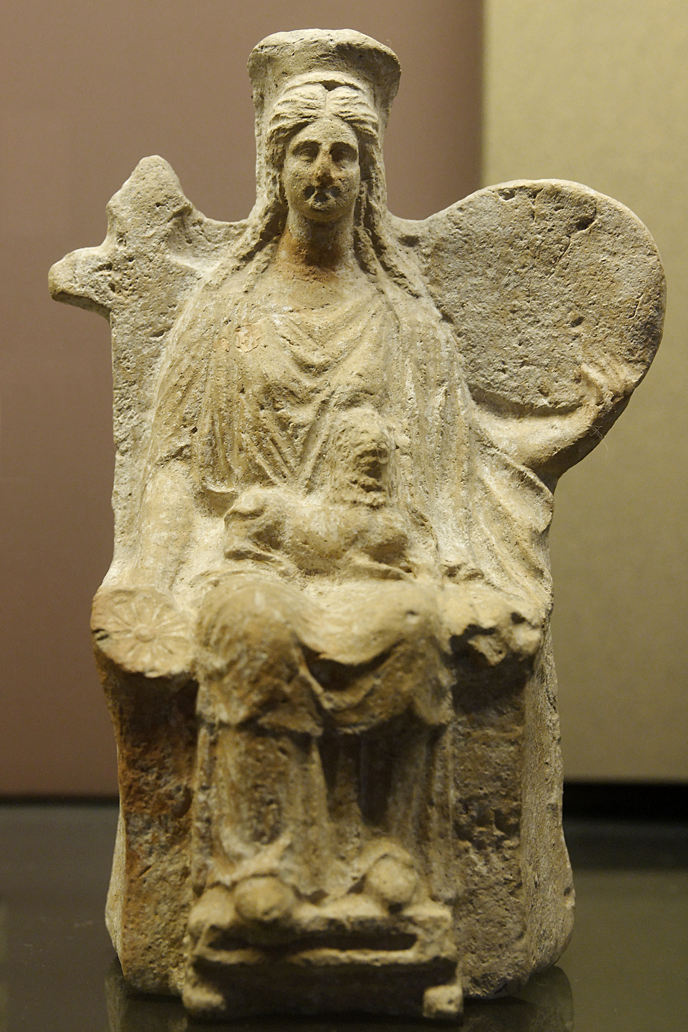 Cybele with a patera and the tympanon. Terracotta figurine, made in Attica?